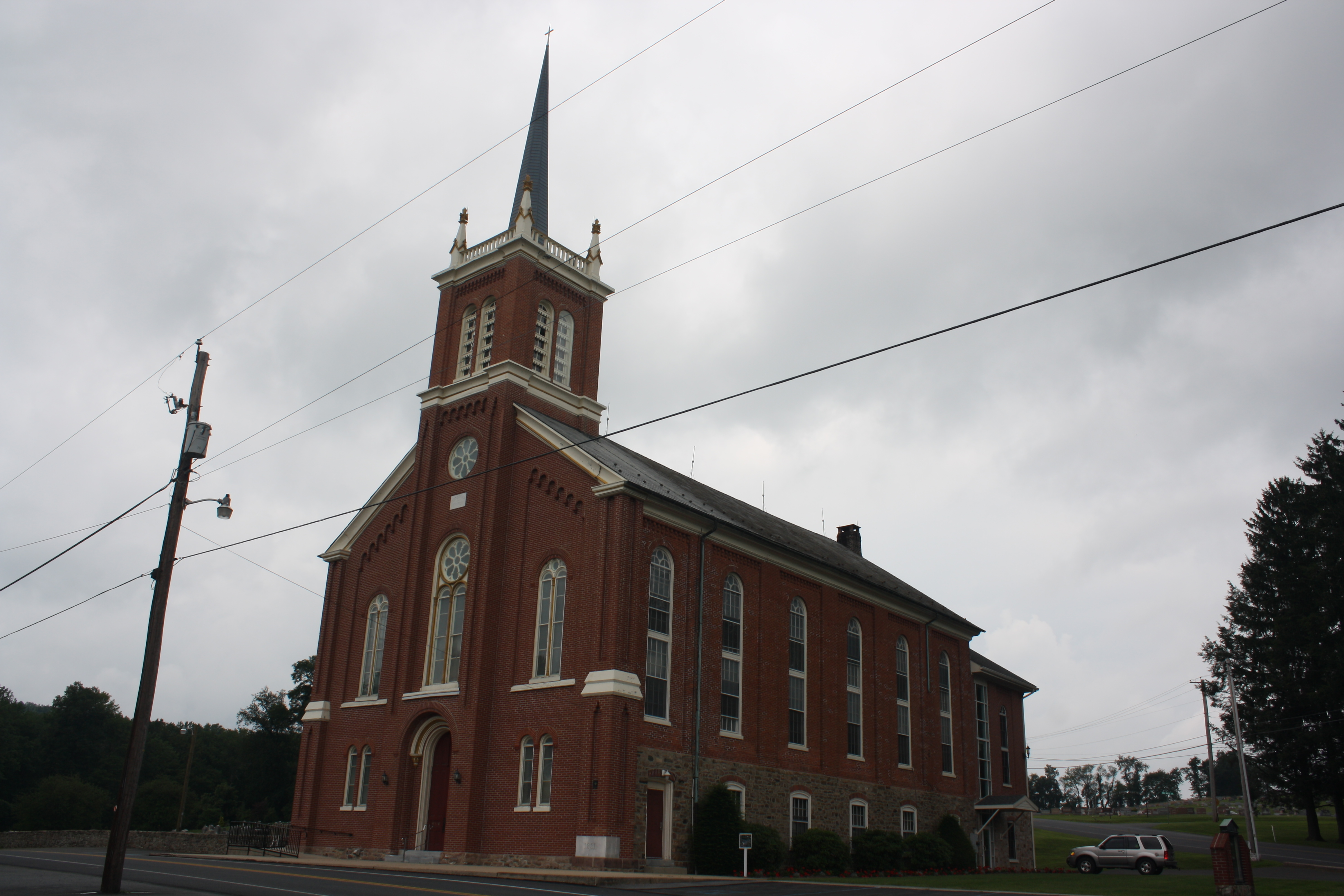 Huff's Union Church - 540 Conrad Road, Hereford, PA 18011